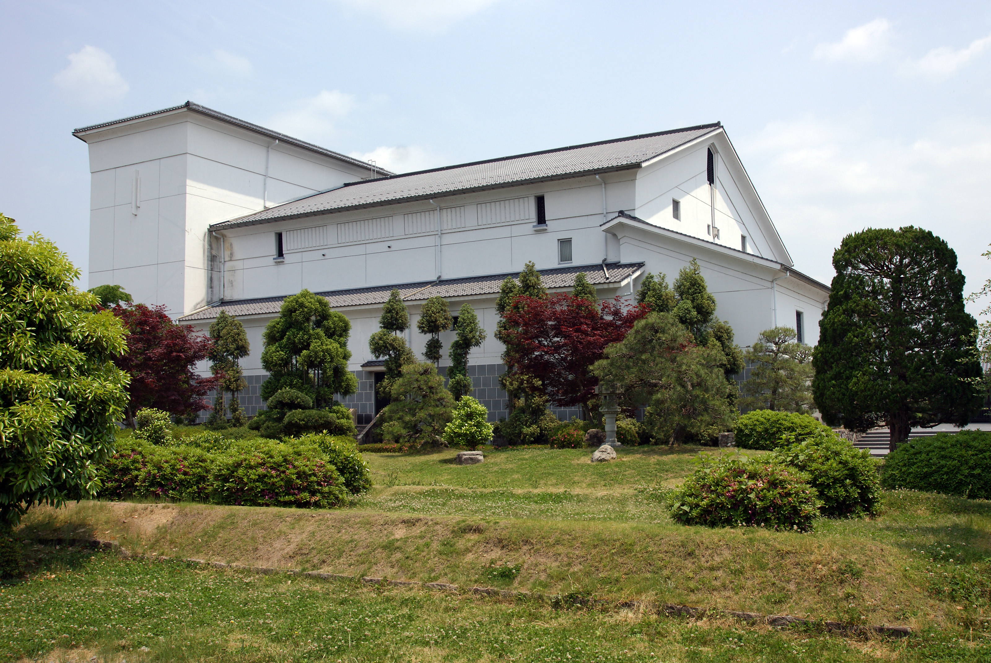 Tanba-Denen Symphony Hall, Sasayama, Hyogo prefecture, Japan